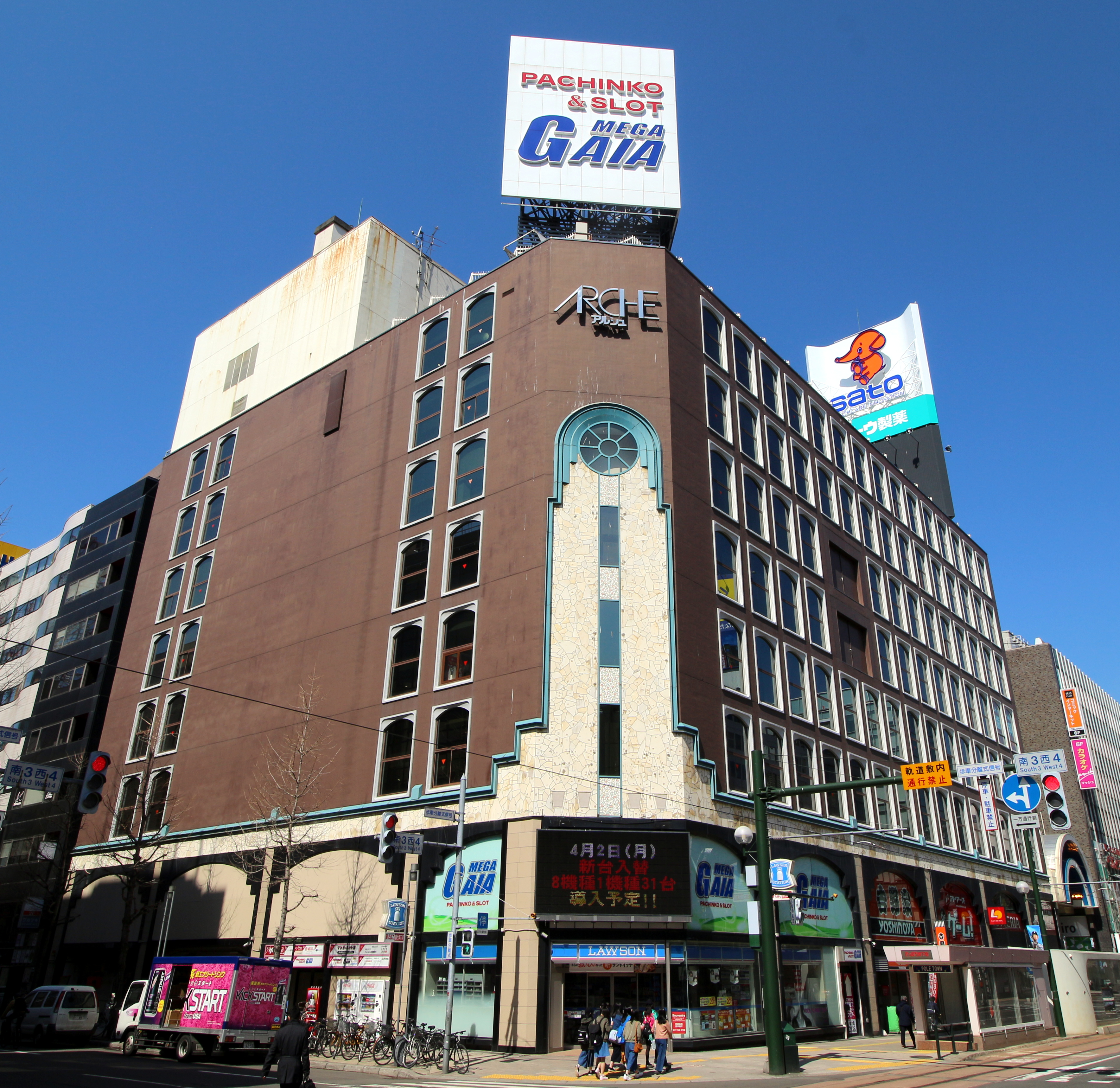 ARCHE commercial building in Sapporo, Hokkaido.